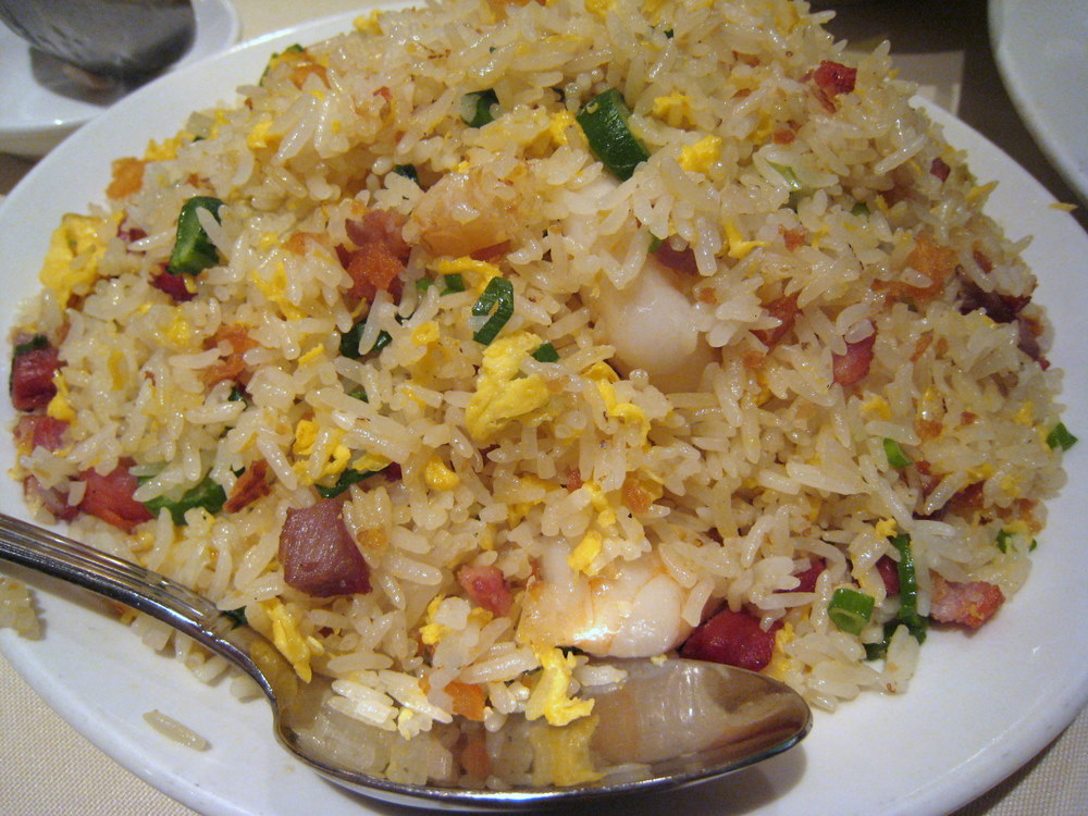 Yeung Chow Fried Rice